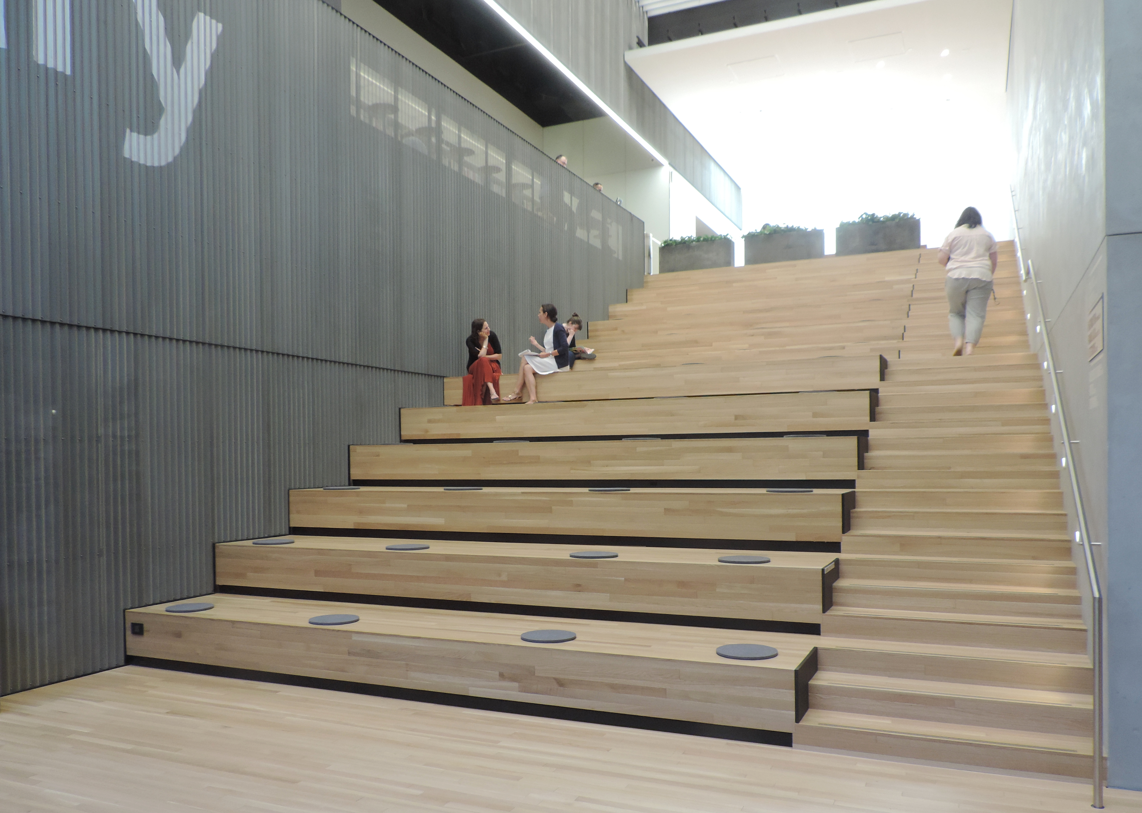 Looking south, up lightly populated grand staircase of new 53rd St NYPL